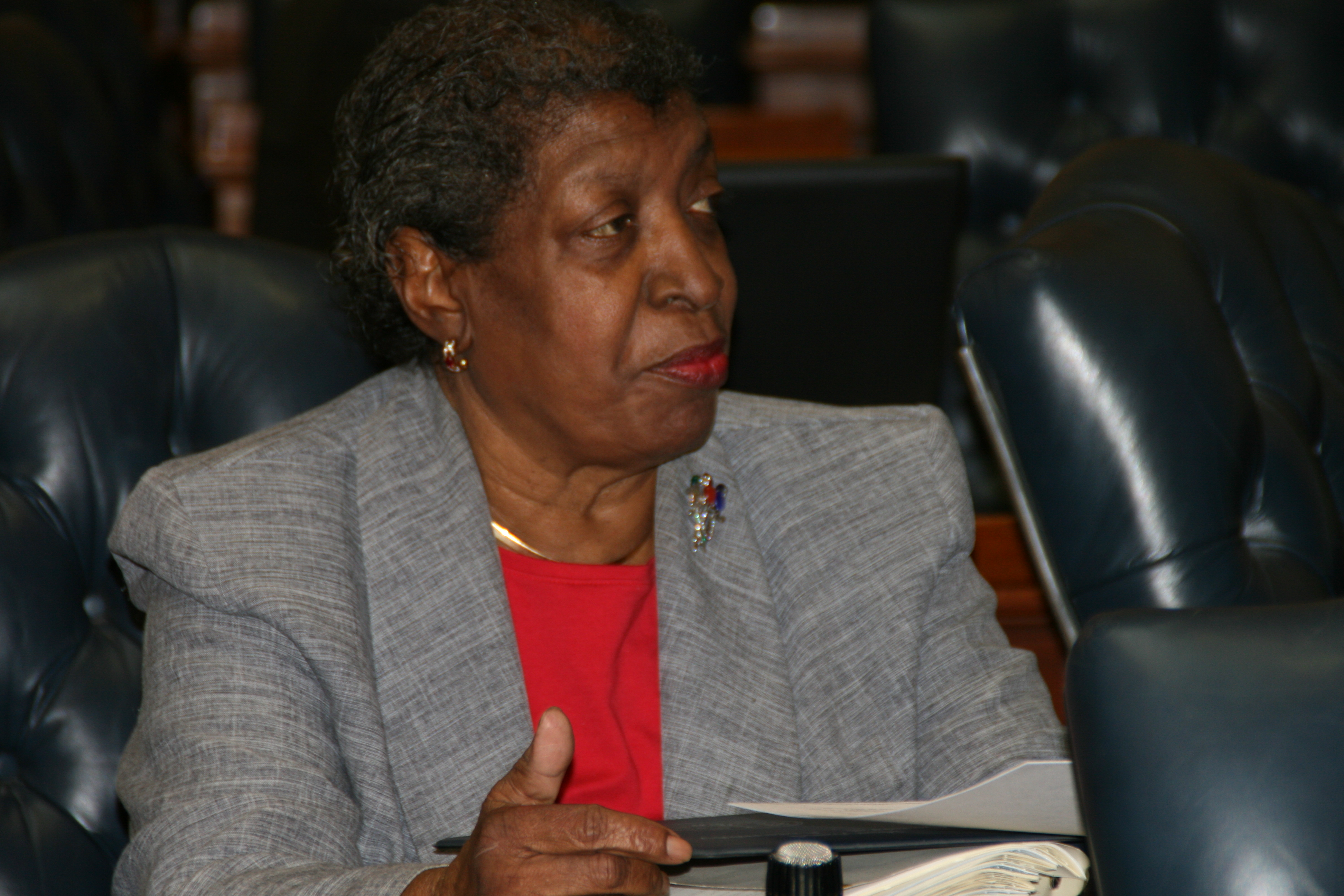 Image of Ruth M. Kirk